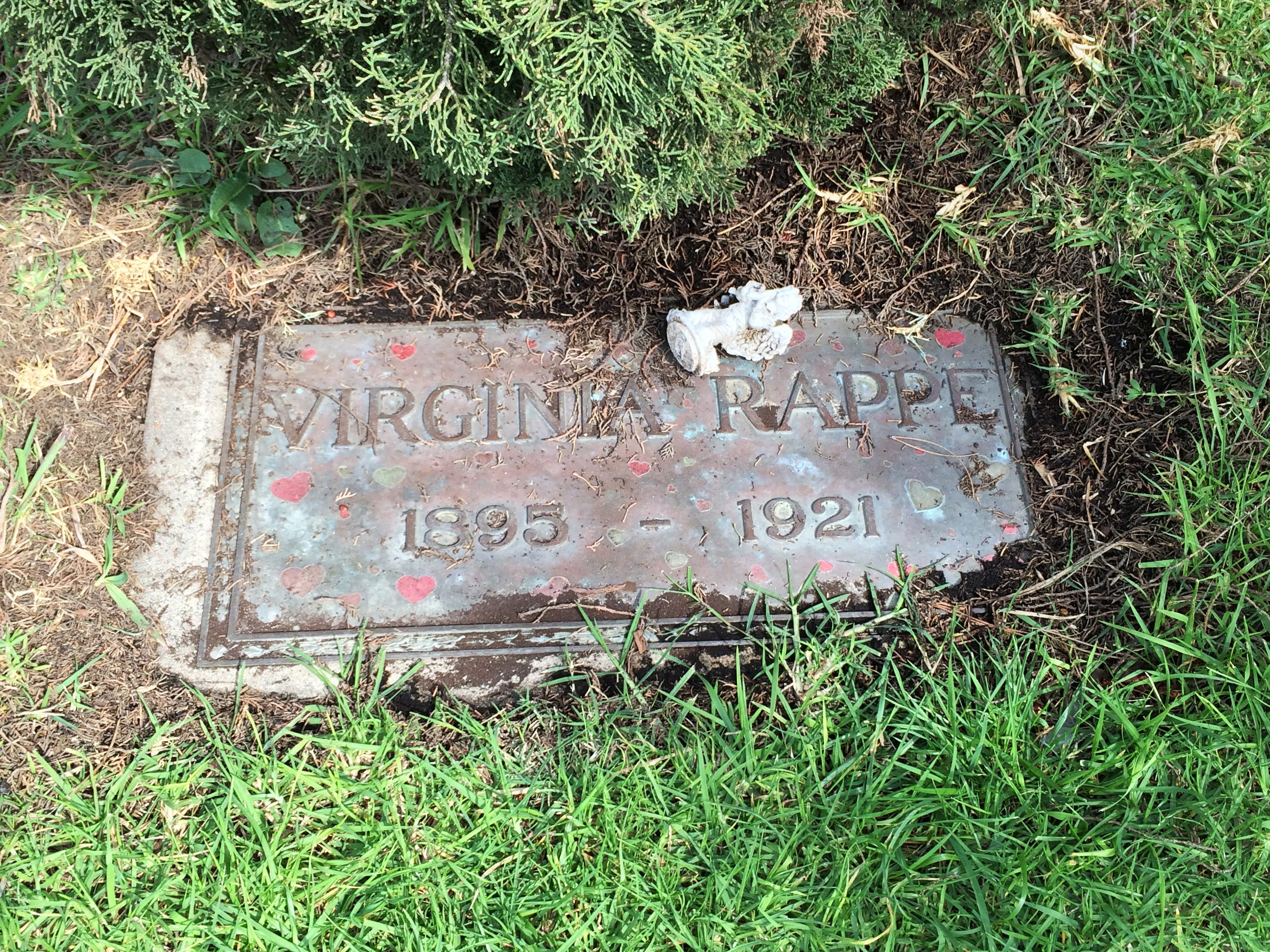 Grave of Virginia Rappe at Hollywood Forever Cemetery.